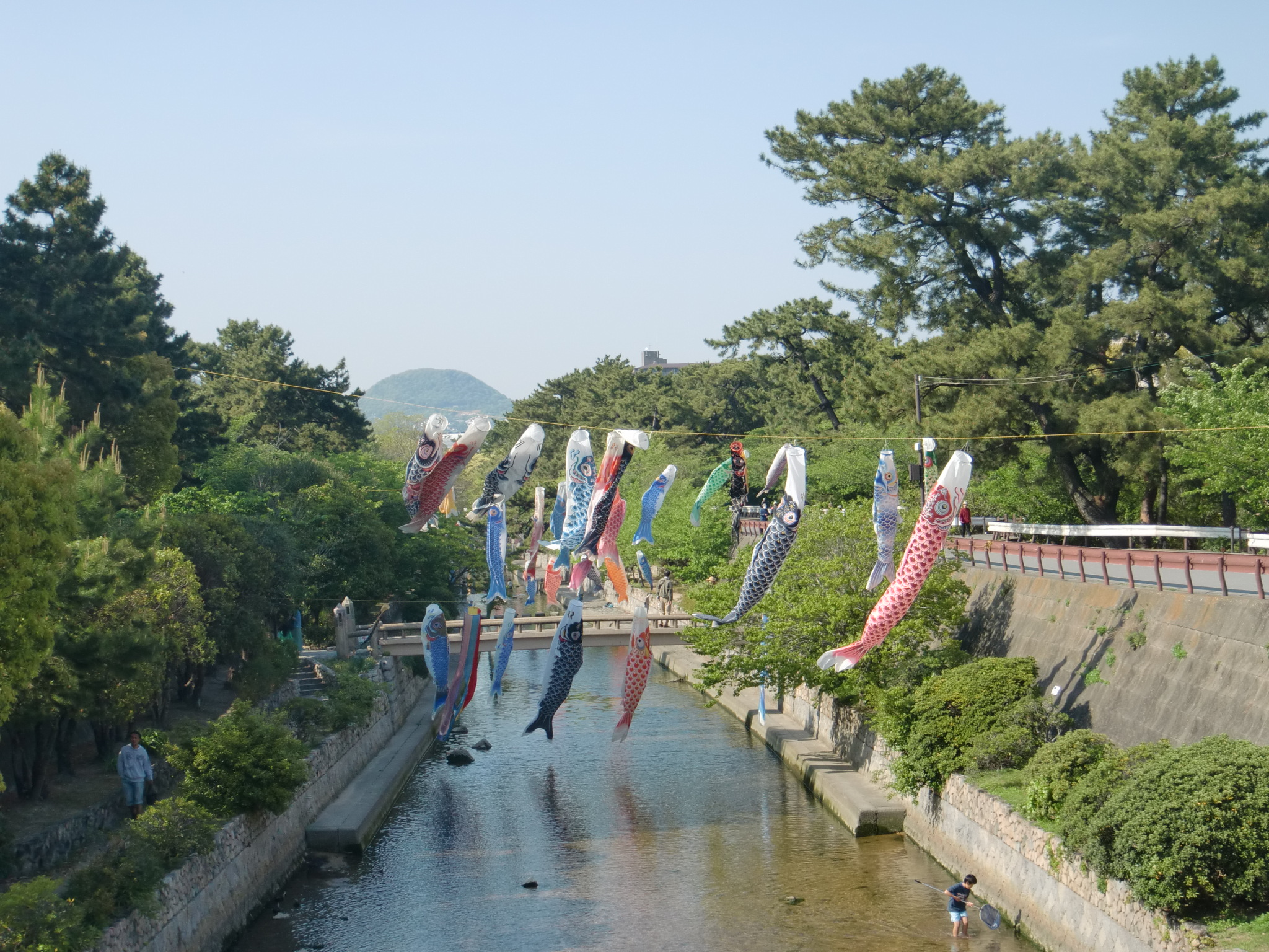 Koinobori means Carp stream, across the Syukugawa River